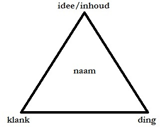 Semiotische driehoek volgens Plato.